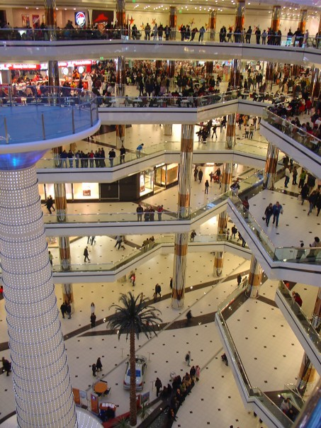 Summary Cevahir Mall, Turkey: Biggest Mall in Europe, seen here with its six floors.